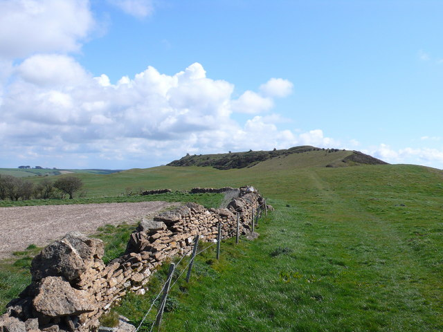 Abbotsbury Castle from Tulks Hill Of the many iron age forts that are scattered along the Dorset coast this is one of the smaller and less known. It is several kilometres west of Abbotsbury on the road to Swyre and Bridport.